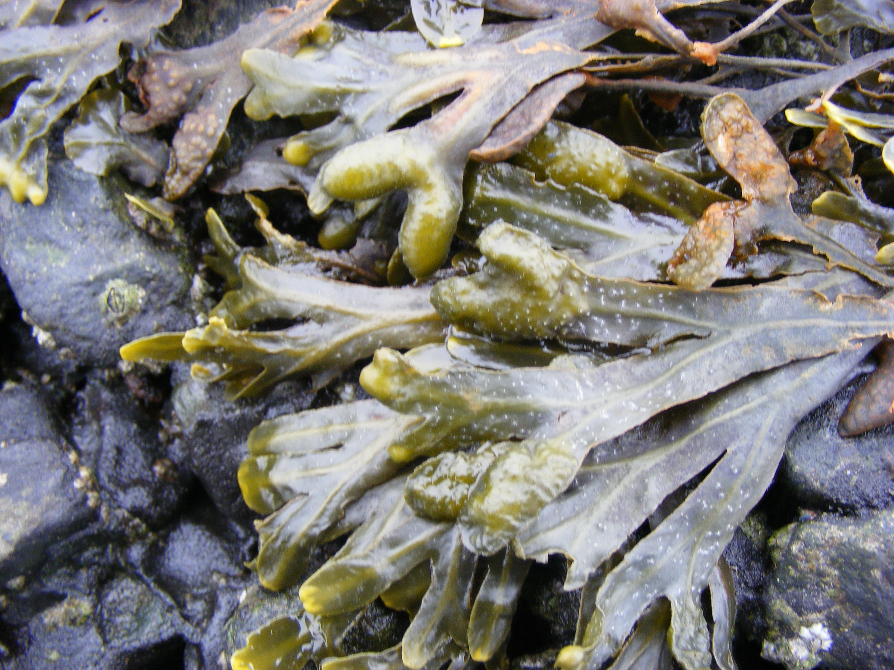 This photo shows Fucus vesicolosus